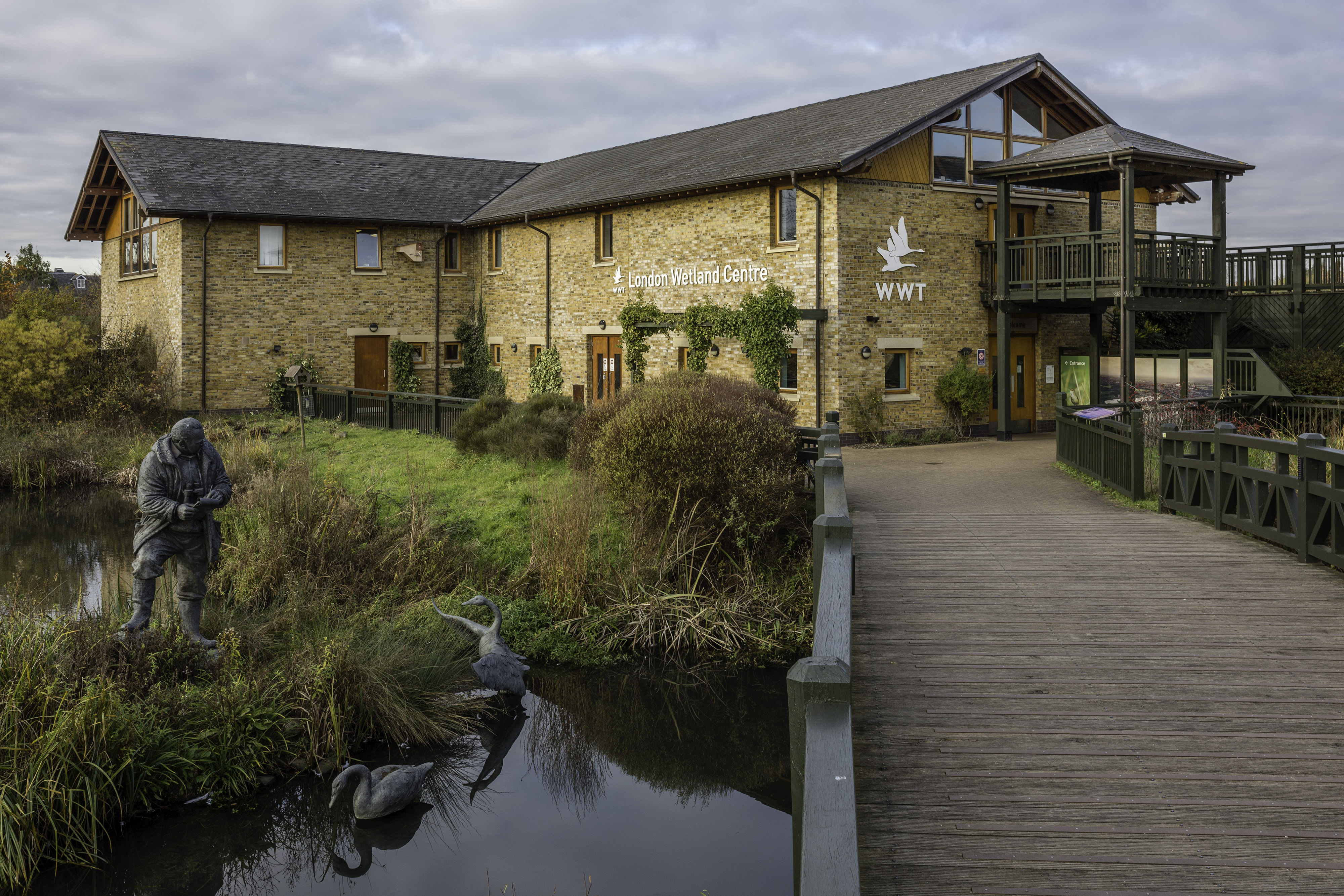 The entrance to the London Wetland Centre, with the statue of Peter Scott by Nicola Godden on the left and the bridge to the Visitors Centre on the right.